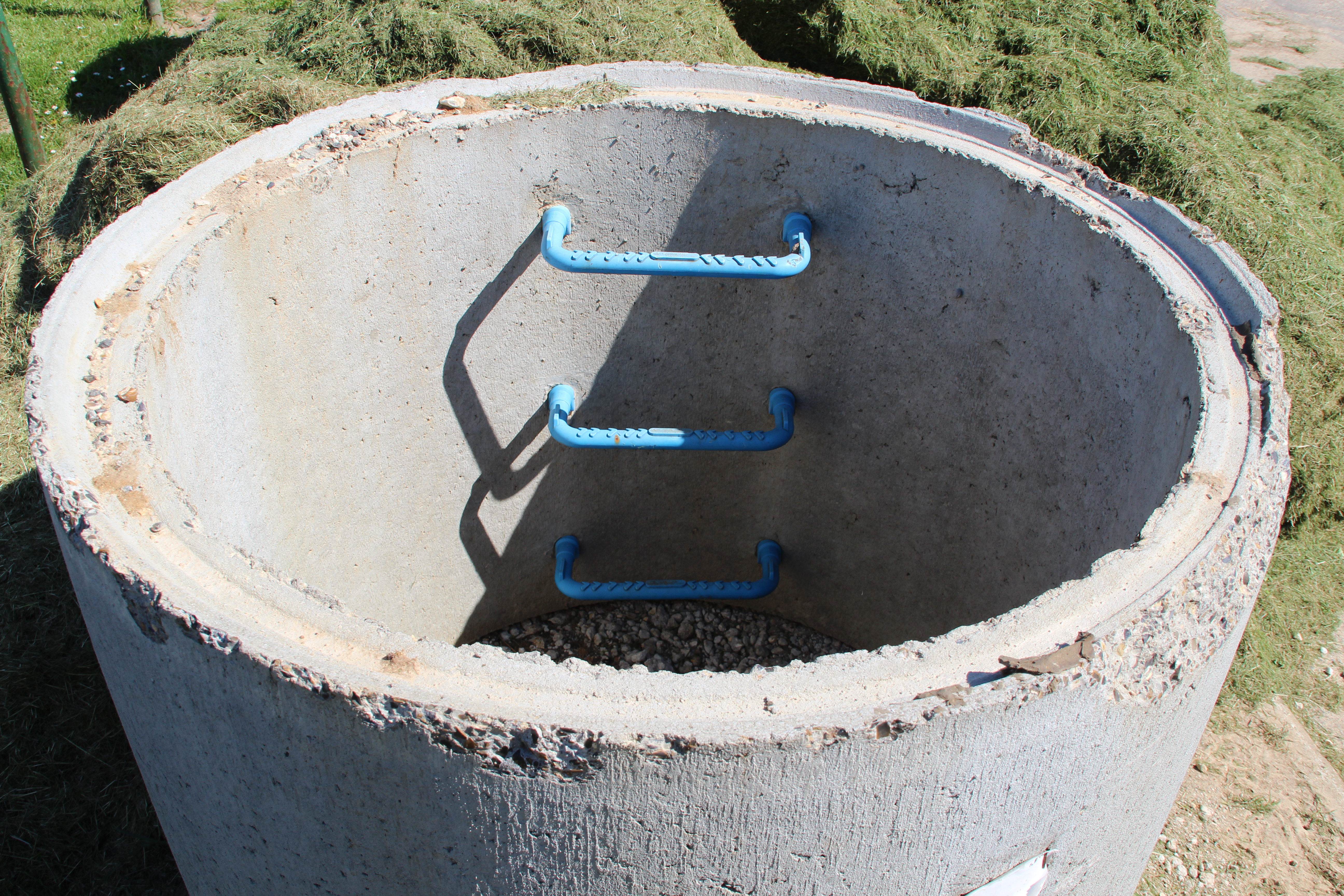 Country road 66, June 4, 2013 in Saclay, France. Object location48° 43′ 44.58″ N, 2° 10′ 43.61″ E